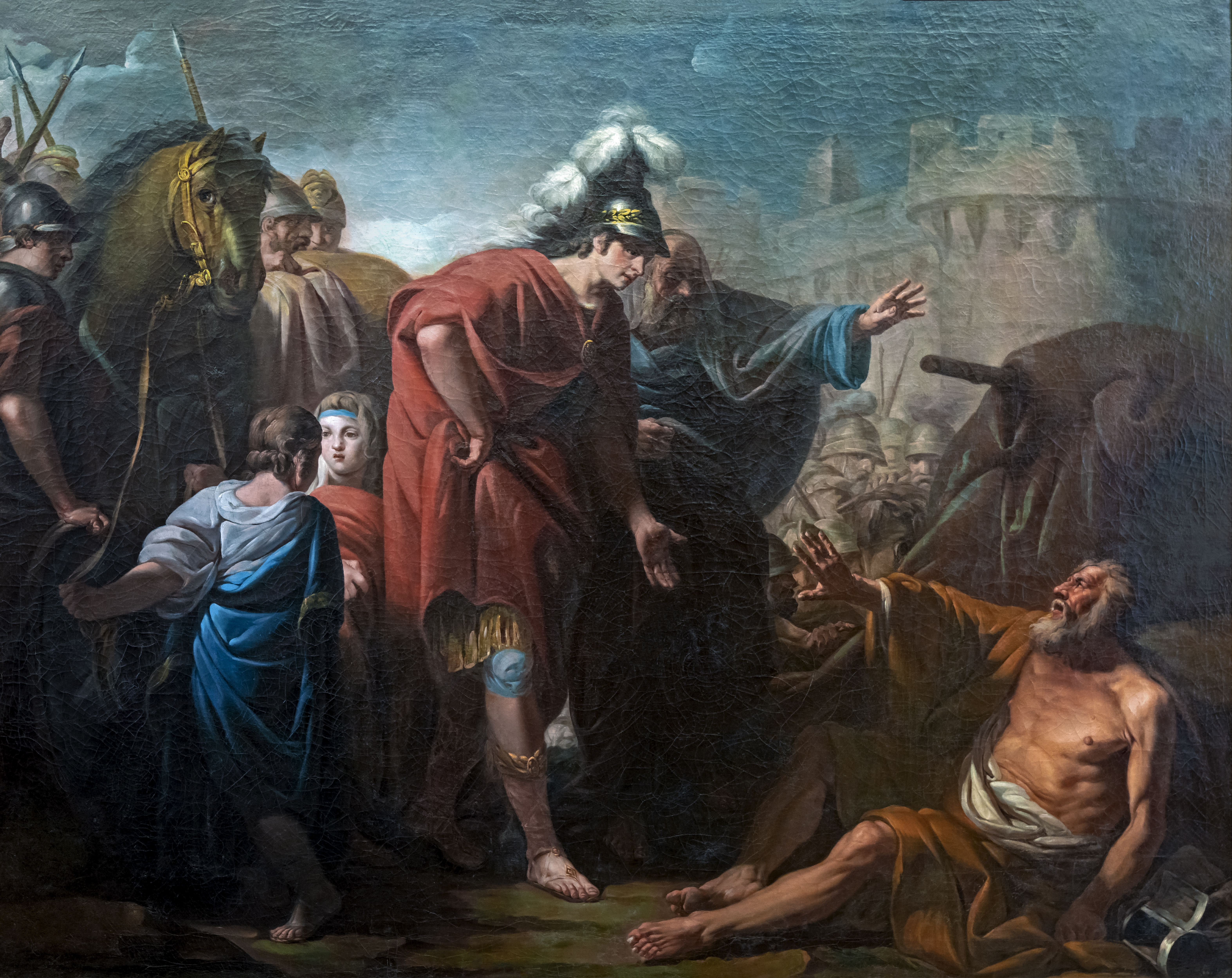 Depicted person: Alexandros the Great – king of Macedon Depicted person: Diogenes of Sinope – ancient Greek philosopher, one of the founders of the Cynic philosophy